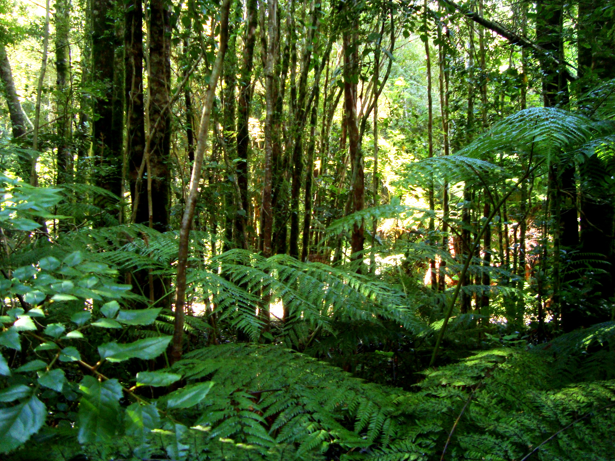 location: Oncol park, Provincia de Valdivia, Chile